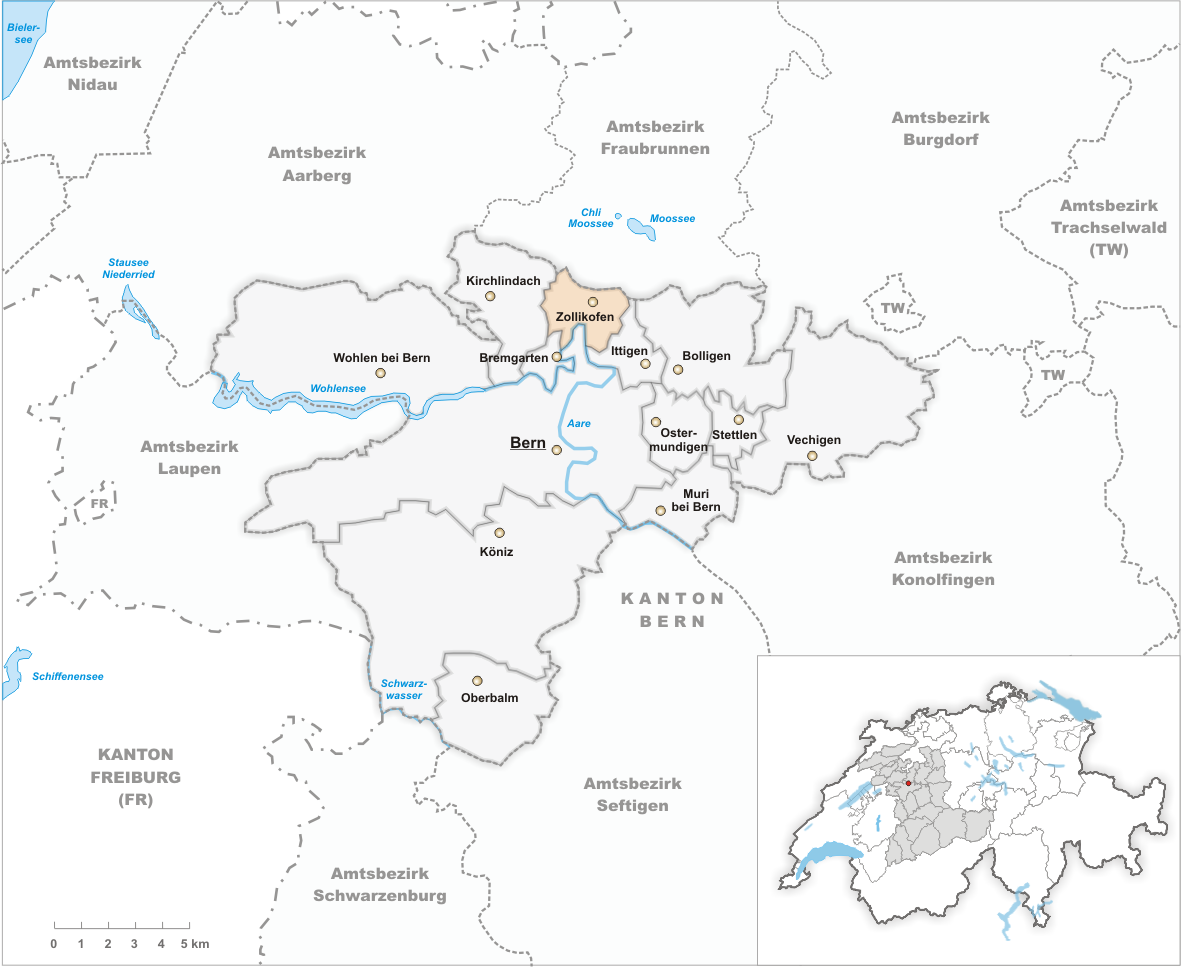 Municipality Zollikofen